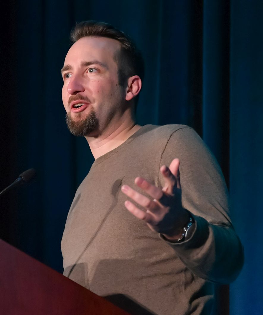 Brendan "PlayerUnknown" Greene at the 2018 Game Developers Conference (March 20-22, 2018, SF)